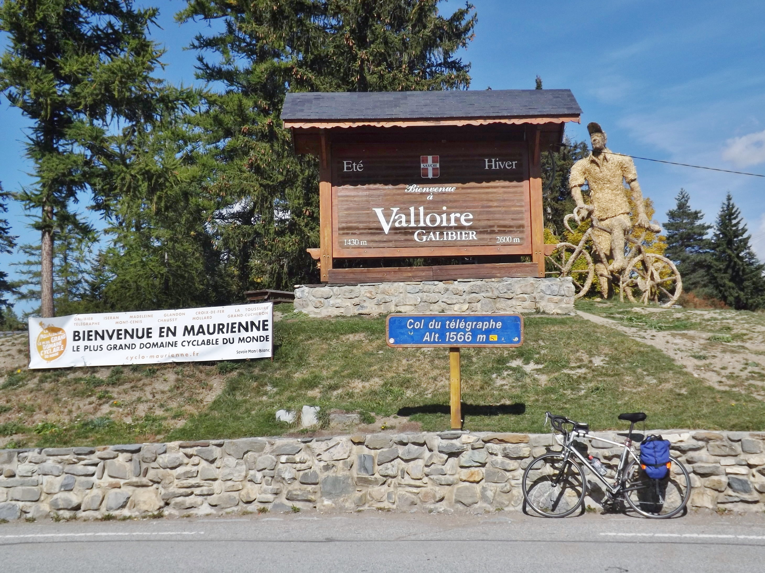 Sight of the col du Télégraphe pass (1,566 meters high) in Savoie, France, entrance of Valloire commune and ski resort, in the Maurienne valley.